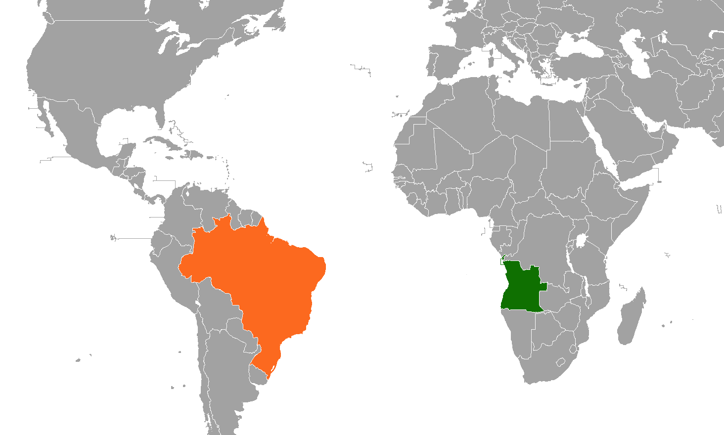 Location of Angola and Brazil